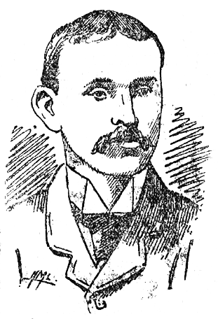 Jenkin Jones in 1893, Welsh trade unionist, future general secretary of the Amalgamated Society of Engineers.